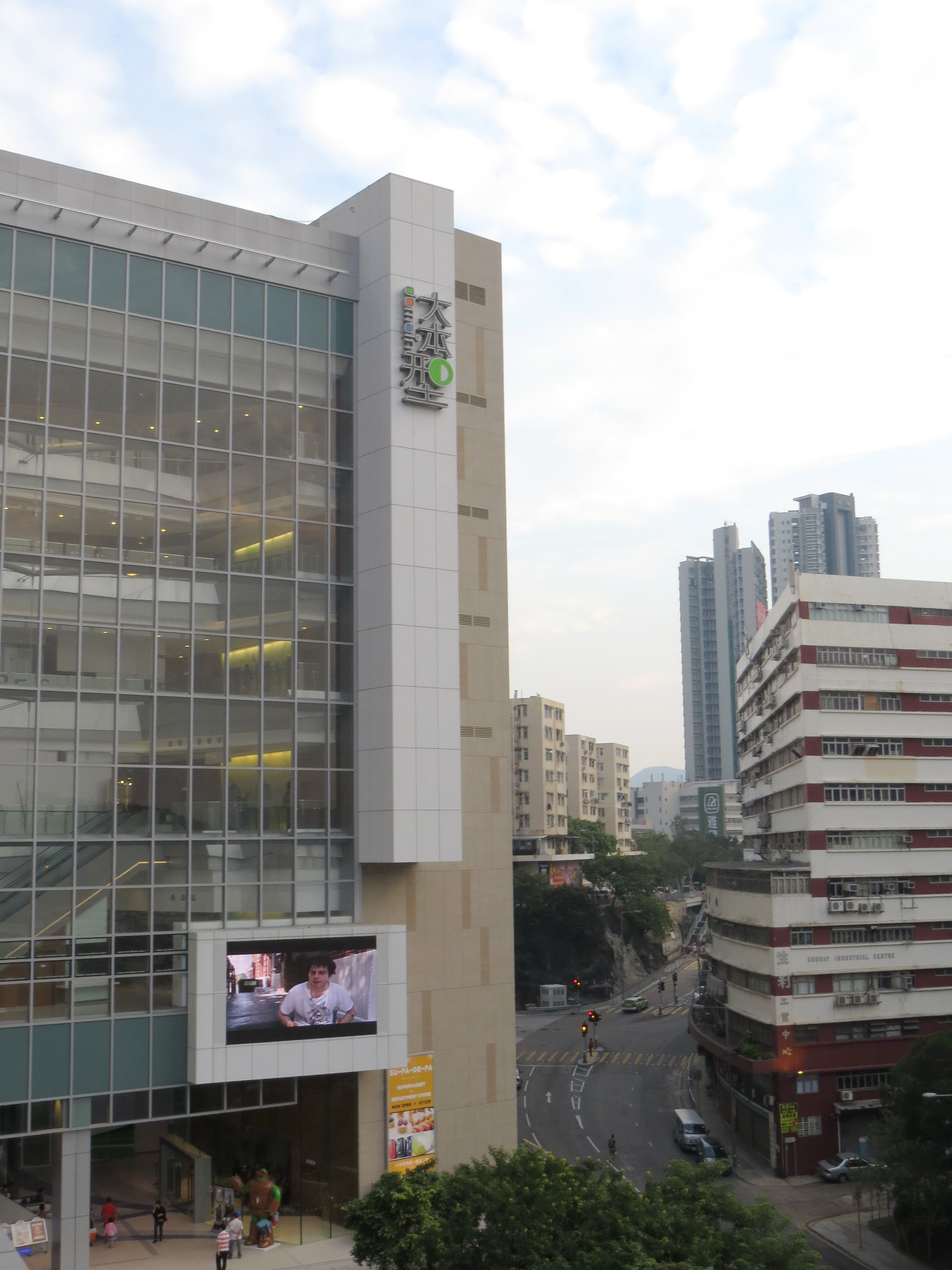 Domain (building on the left), Yau Tong, Kowloon, Hong Kong. The road in the middle is Cha Kwo Ling Road.